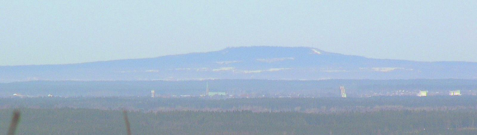 Kinnekulle, Västergötland, Sweden. In the mid-distance Skara with its cathedral. Photo from Mösseberg, approximately 40 km to the south.